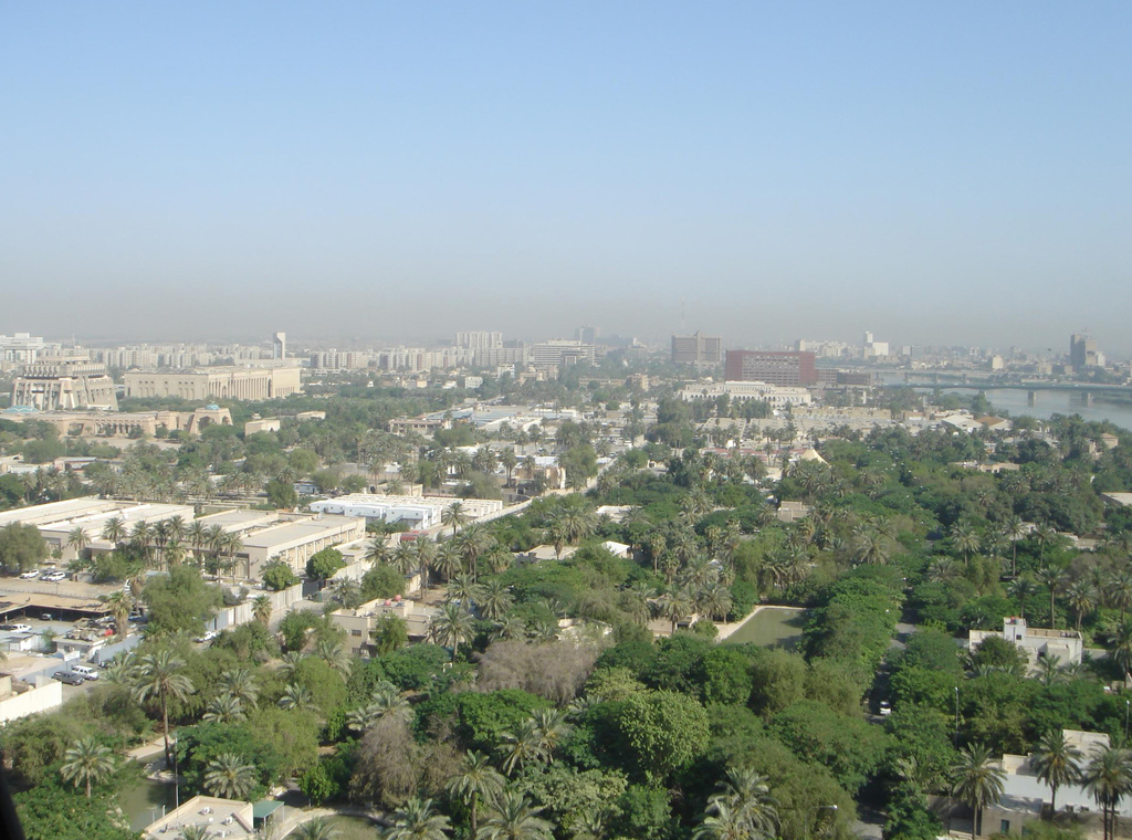 This is a photograph of the Green Zone in Baghdad taken by Robert Smith released into the public domain.